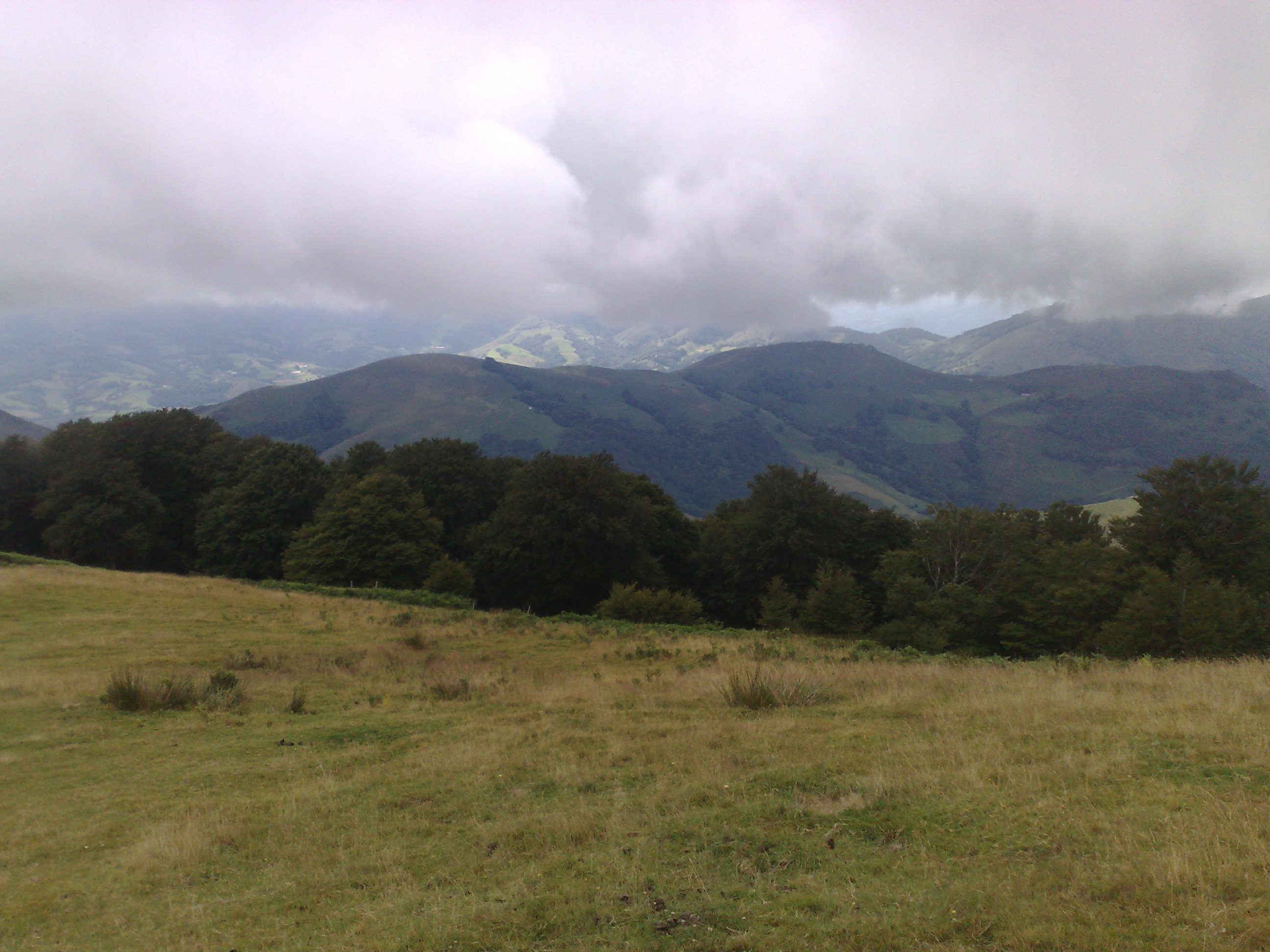 Otsamunho is a little mountain chain in the upper Baigorri valley, Lower Navarre, Basque Country. Taken from the south-east and from left to right: Errola, Otsamunho and Otsaxar.